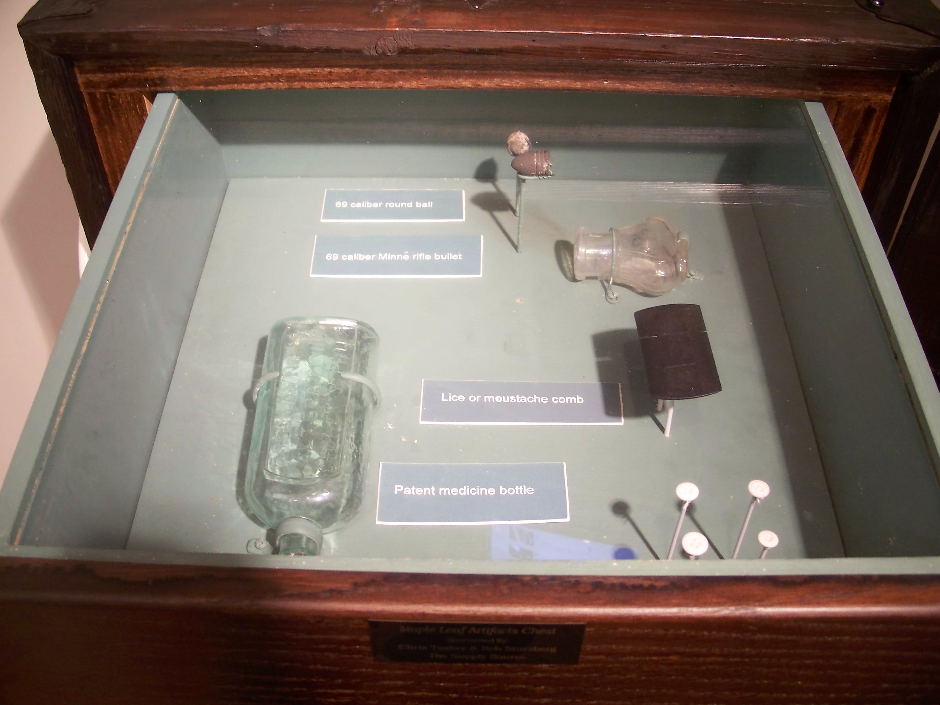 Mandarin, Florida: Maple Leaf: Artifacts from the wreck